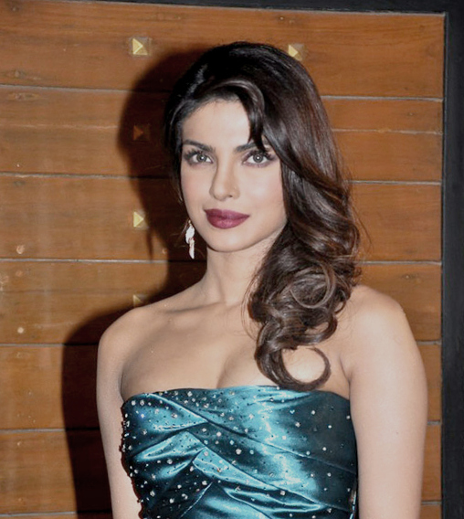 Priyanka Chopra at Filmfare Awads 2013.jpg